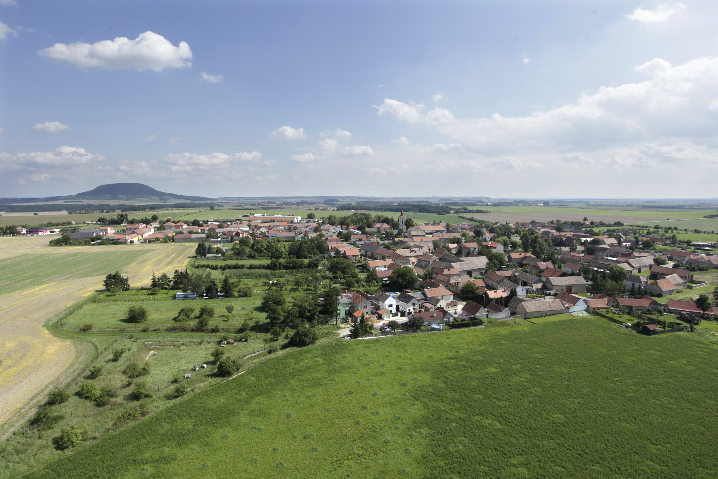 Račiněves is a village and municipality in Litoměřice District in the Ústí nad Labem Region of the Czech Republic